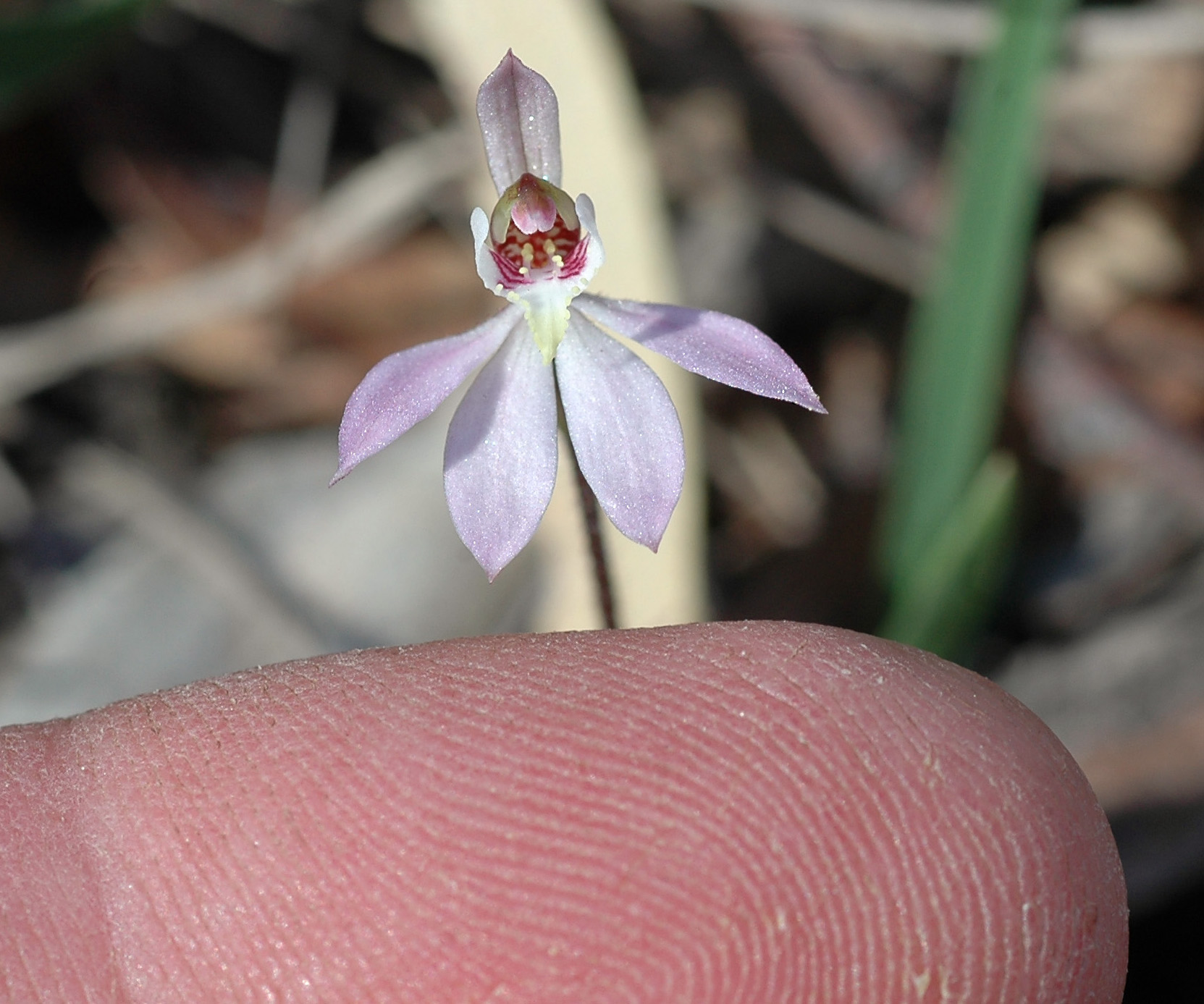 Pink Fingers orchid, Caladenia Carnea. Size in relationship to a finger. Southern Mid-lands of Tasmania.